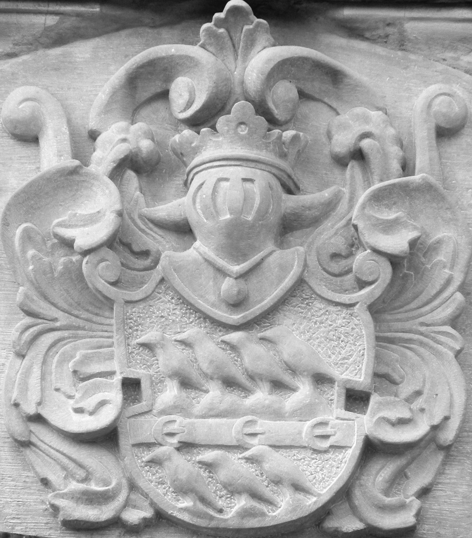 Coat of arms of Zsigmond Drugeth. Main facade of the manor house in Humenné, Slovakia.